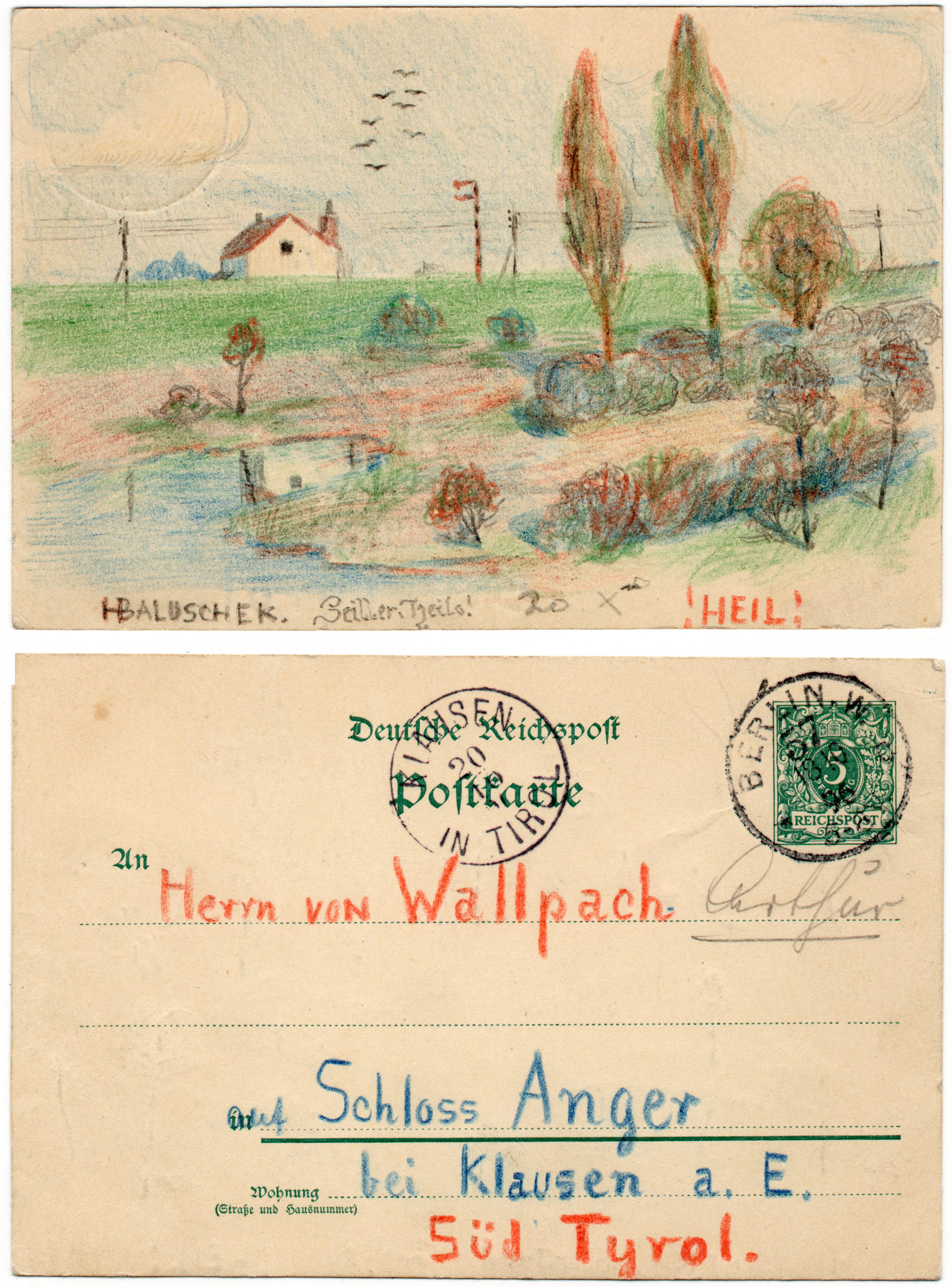 Postcard painted by Hans Baluschek